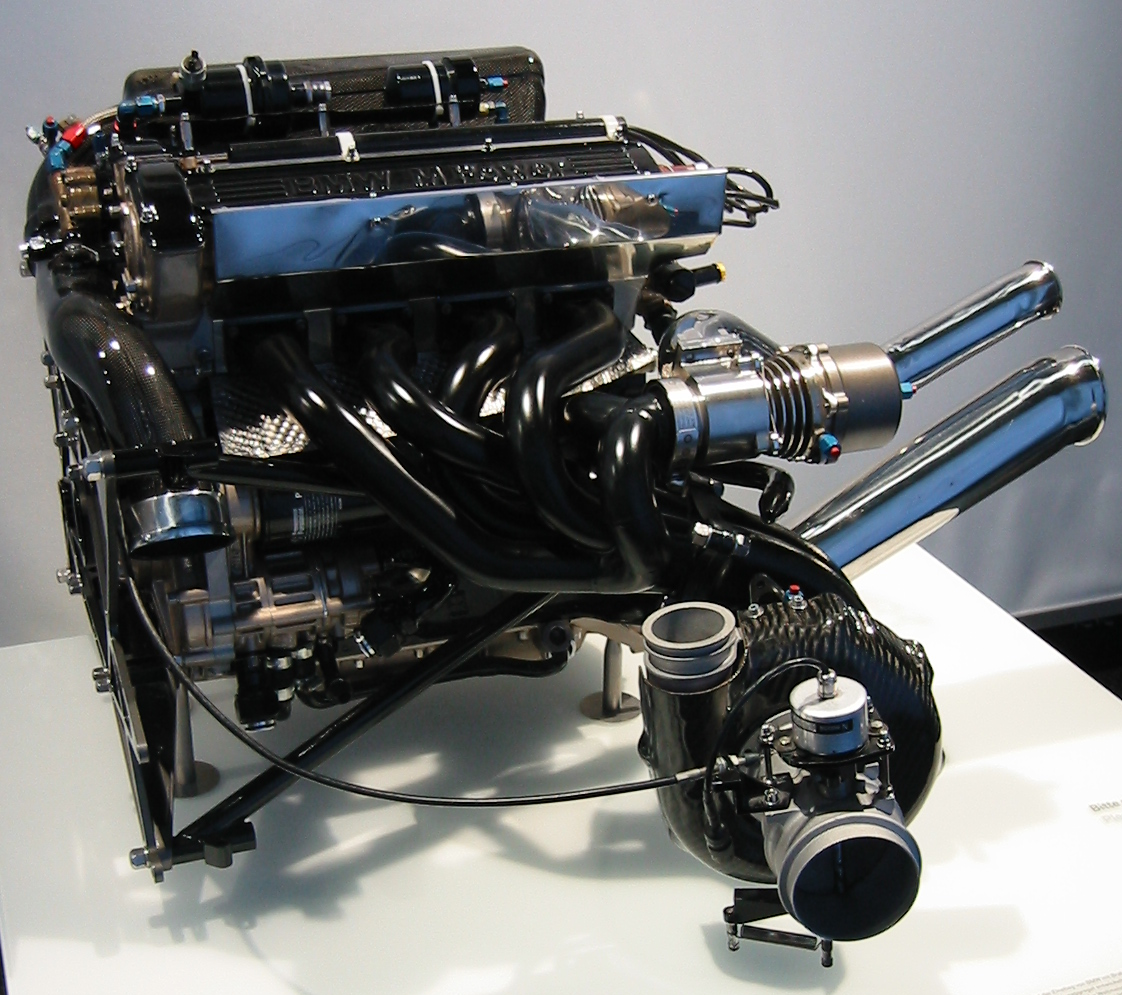 BMW Formula 1-Engine M12/13 at BMW-Museum Munich